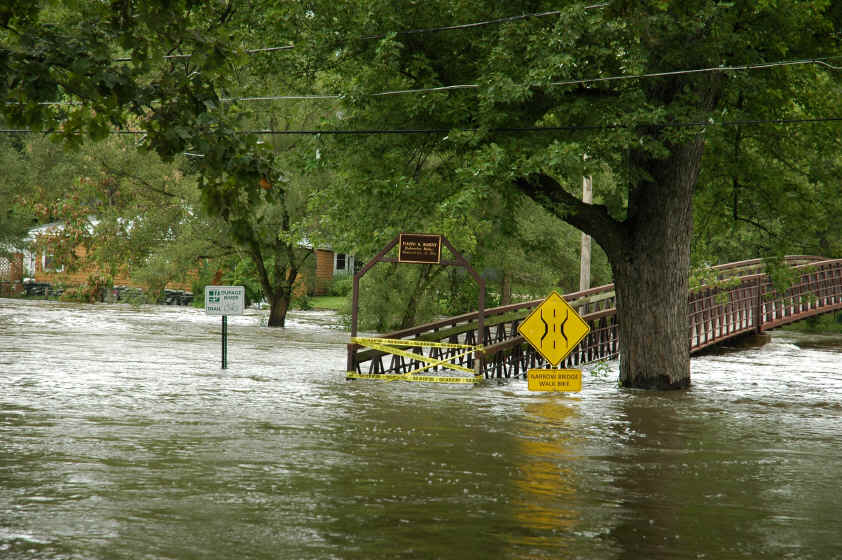 Flooding caused by the remnants of Hurricane Ike near a pedestrian bridge in Shorewood, Illinois